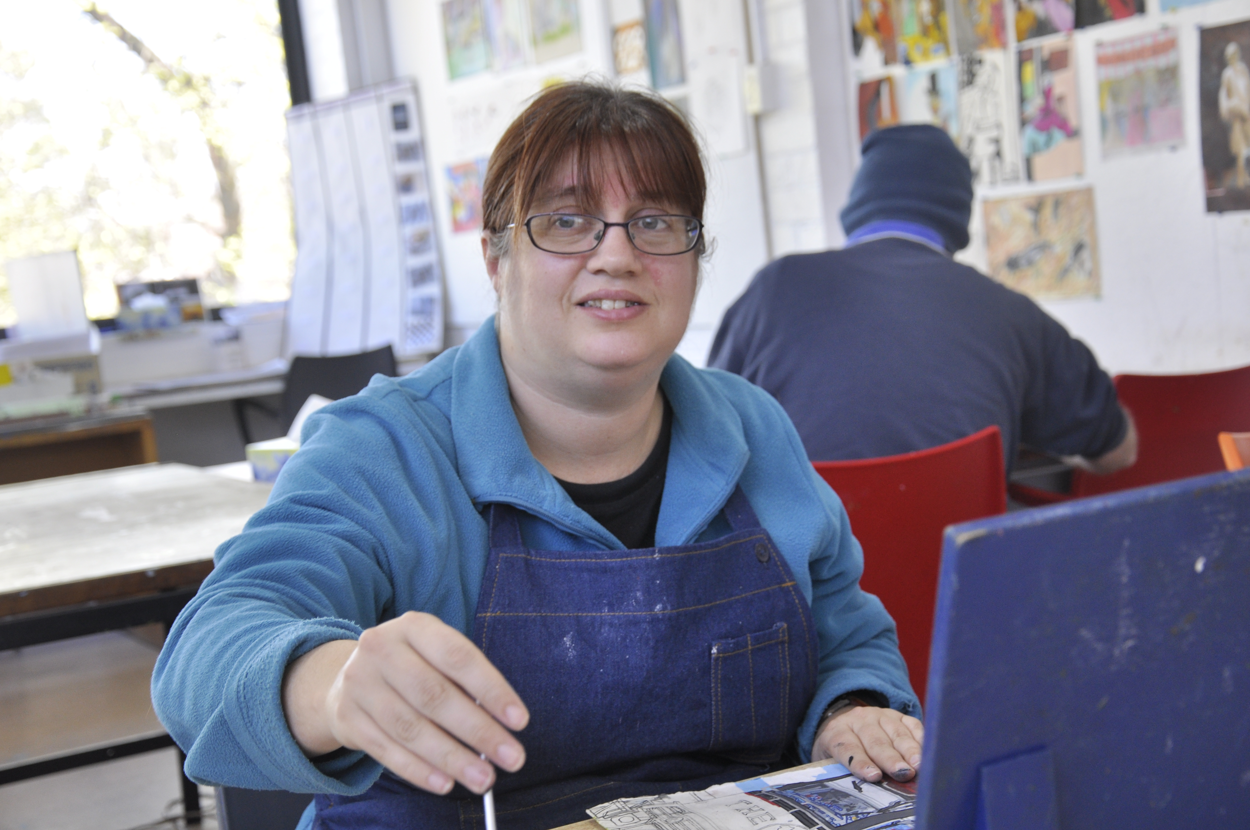 Image of Australian artist Lisa Reid.